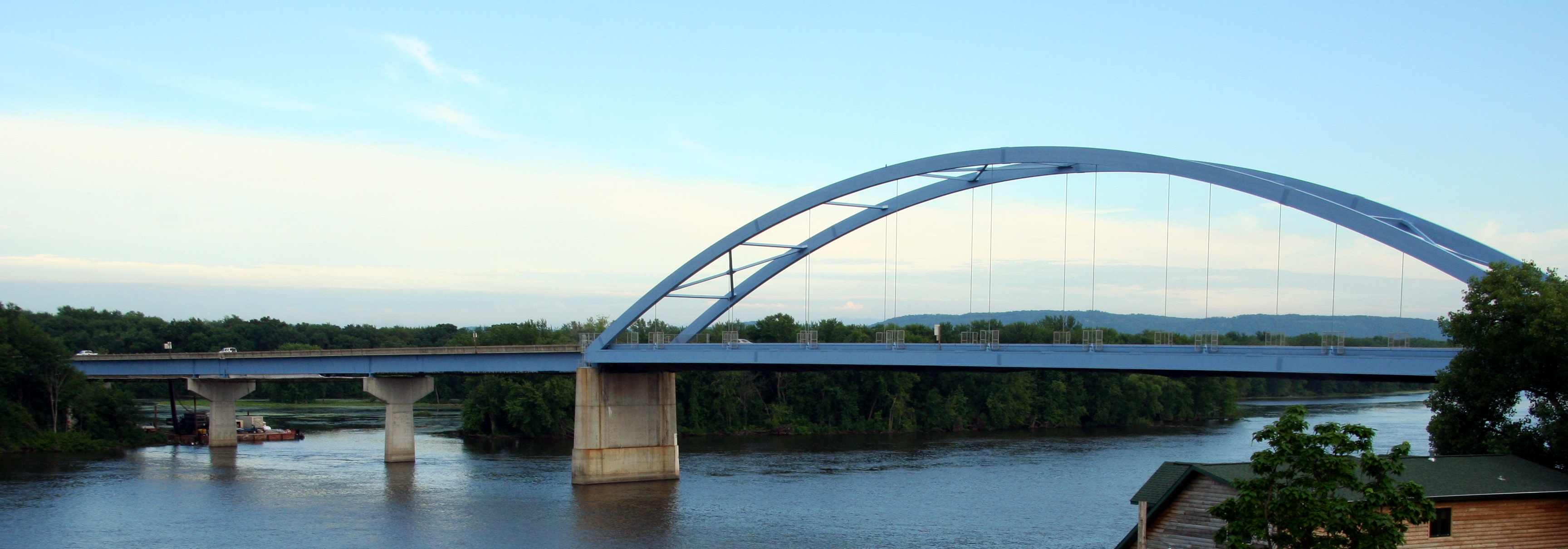 Marquette–Joliet Bridge over the Mississippi River, viewed from an scenic overlook observation deck in Marquette, Iowa